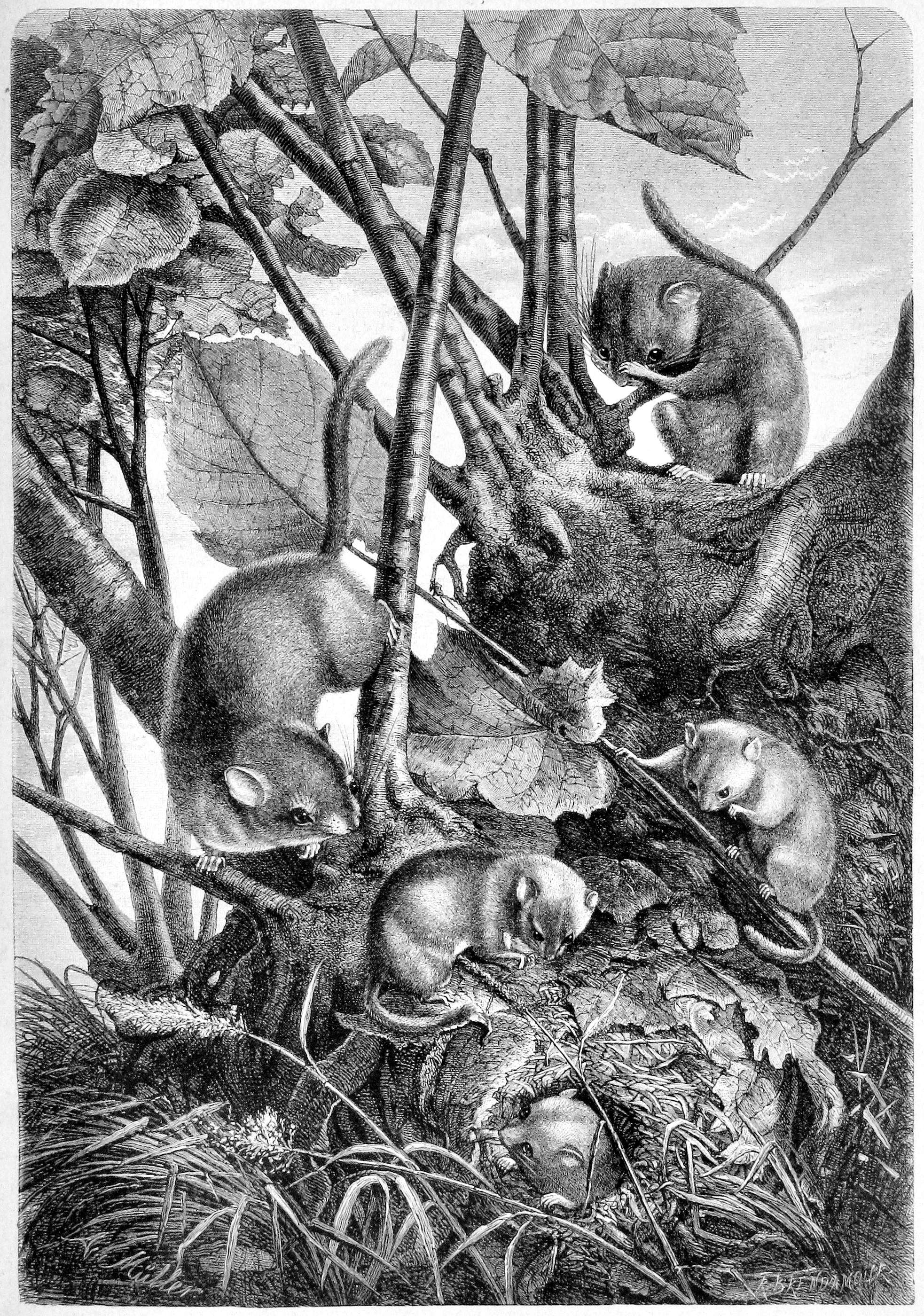 caption: "Die kleine Haselmaus. Originalzeichnung von A. Müller."